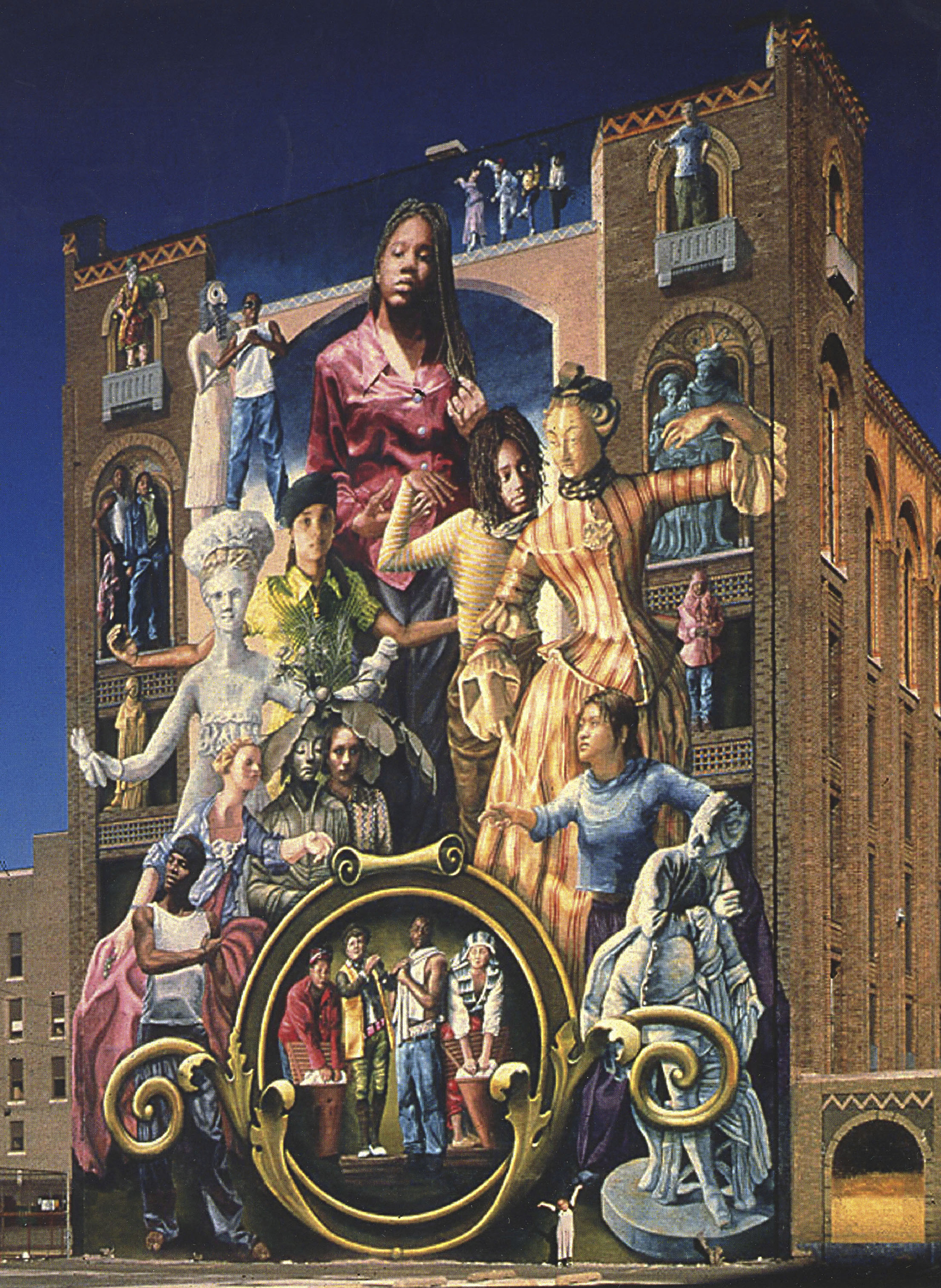 Common Threads (1998), Philadelphia PA Common Threads is one of Philadelphia’s most iconic landmarks in contemporary muralism. Commenting on shared humanity, this work parallels today’s youth with classical aesthetics. All portraiture features local high school students.